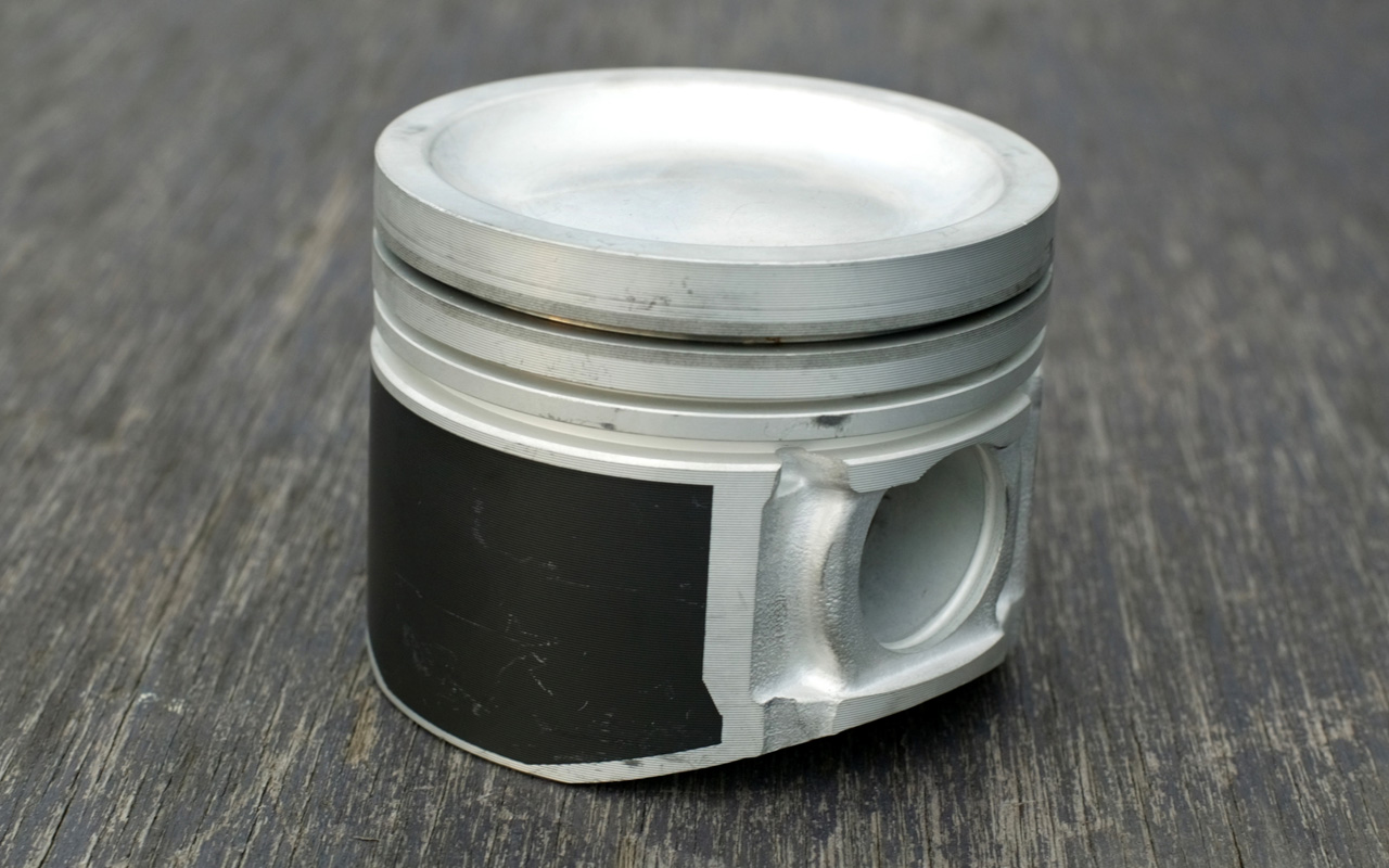 Retro-fit piston of Diesel to LPI